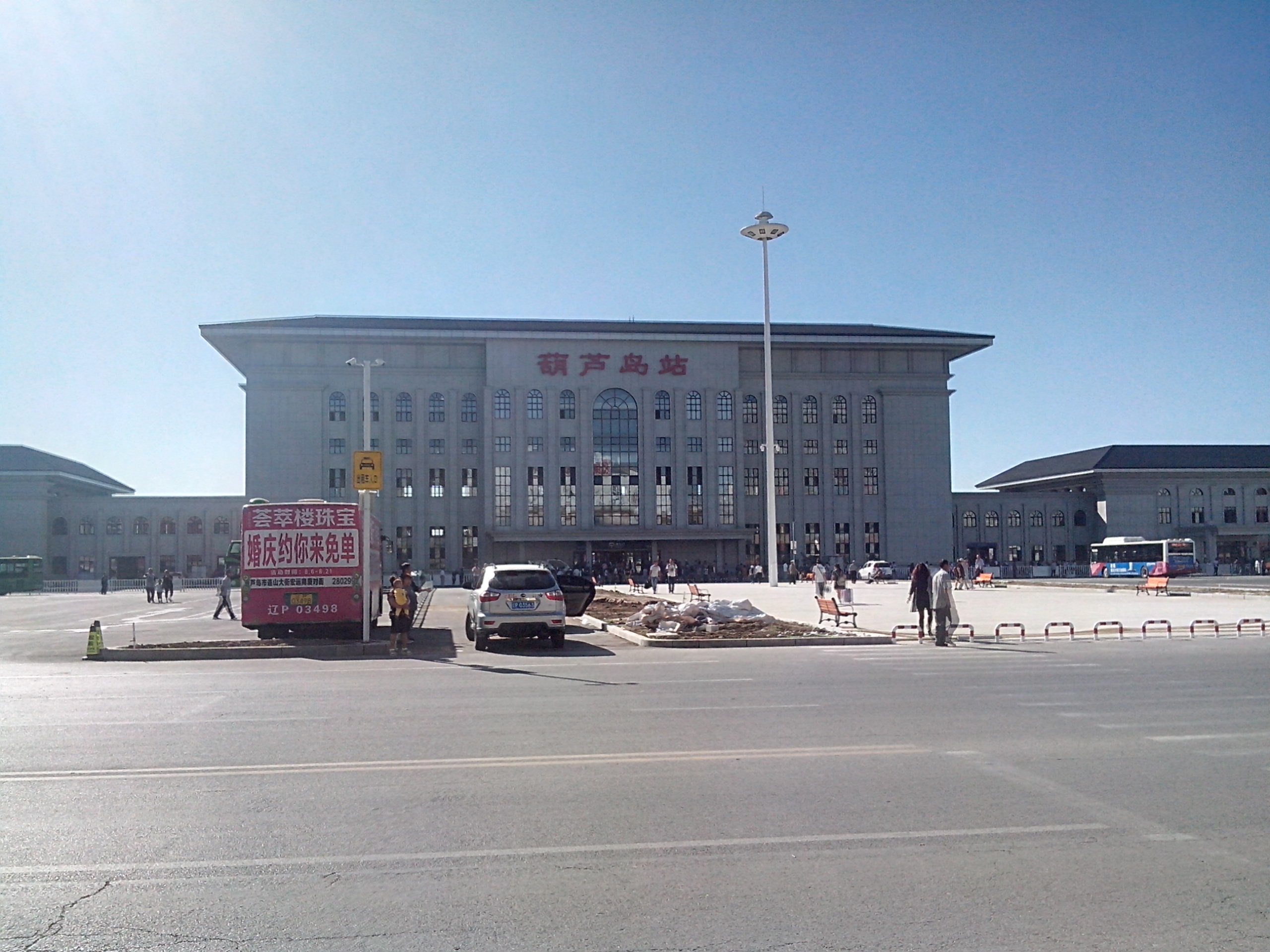 This is the train station at the center of Huludao in Liaoning province, not to be confused with the North station with access to high-speed rail.